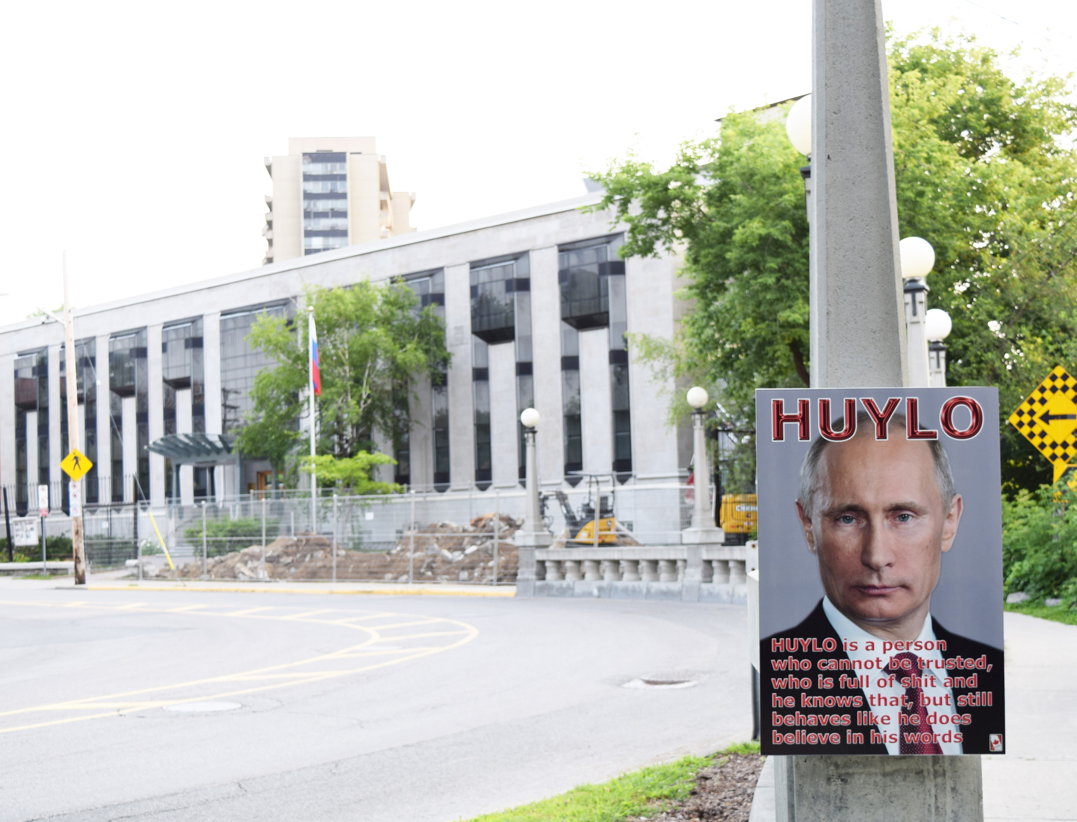 Russian Embassy in Ottawa (Canada)